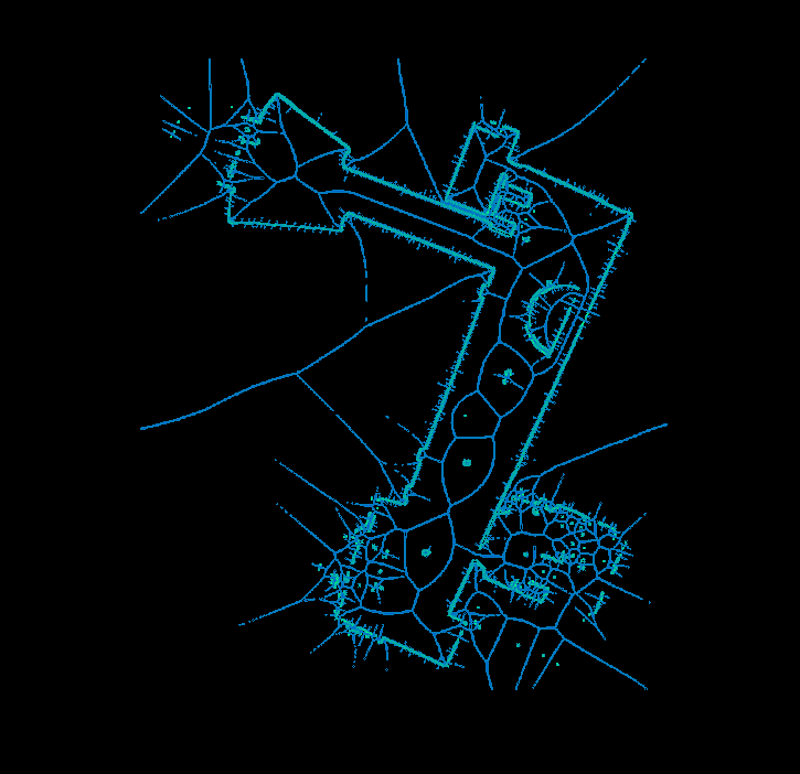 Path planning for mobile robots for a given map.Matlab code to generate the image can be found at